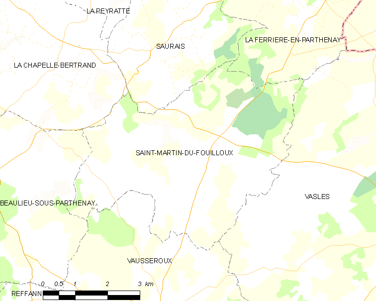 Map of French municipality Saint-Martin-du-Fouilloux